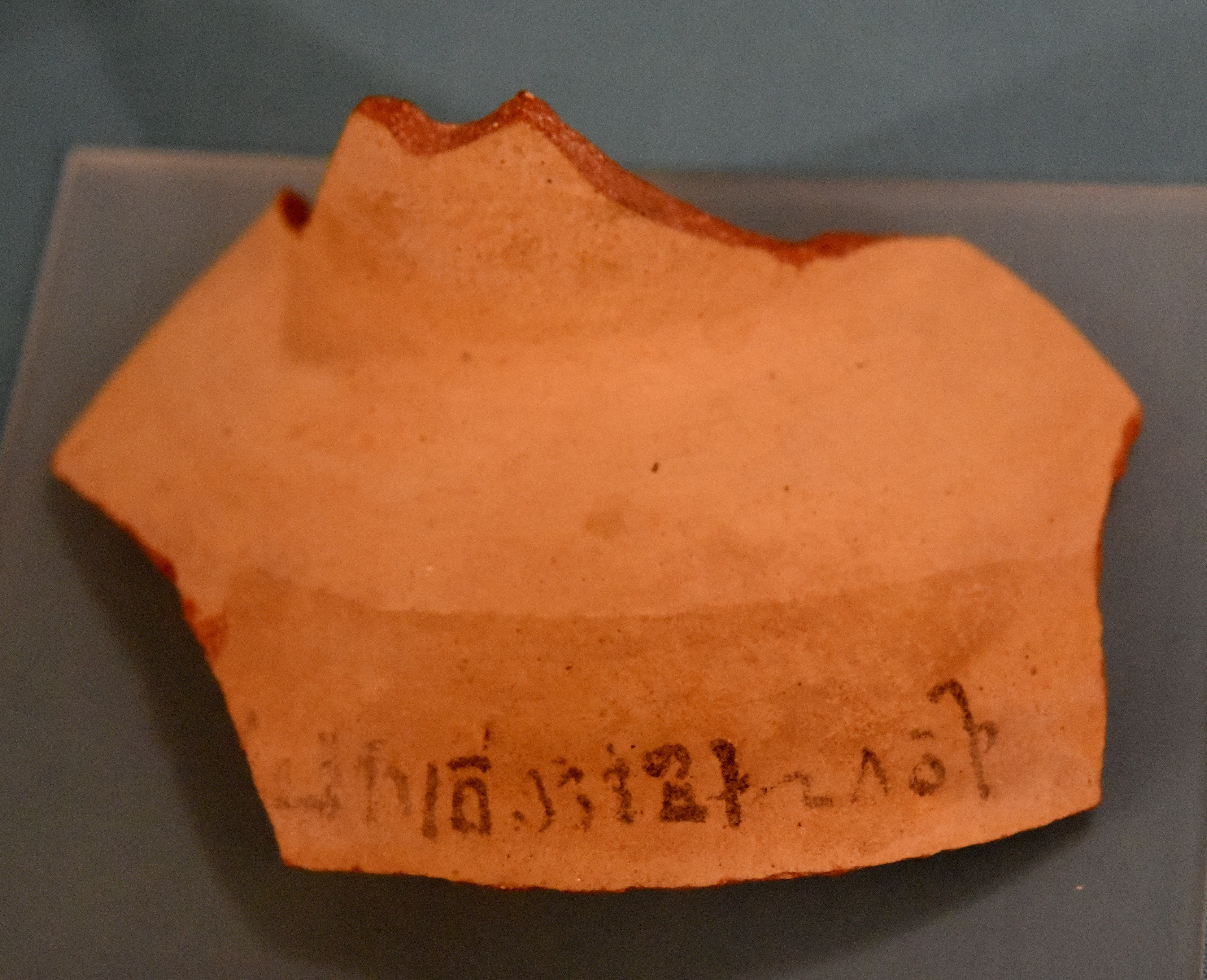 Hieratic inscription on a pottery fragment. It records year 17 (the last year) of Akhenaten's reign and reference to wine of the house of Aten. Marl clay transport vessel. Reign of Akhenaten. From Amarna, Egypt. The Petrie Museum of Egyptian Archaeology, London. With thanks to the Petrie Museum of Egyptian Archaeology, UCL.